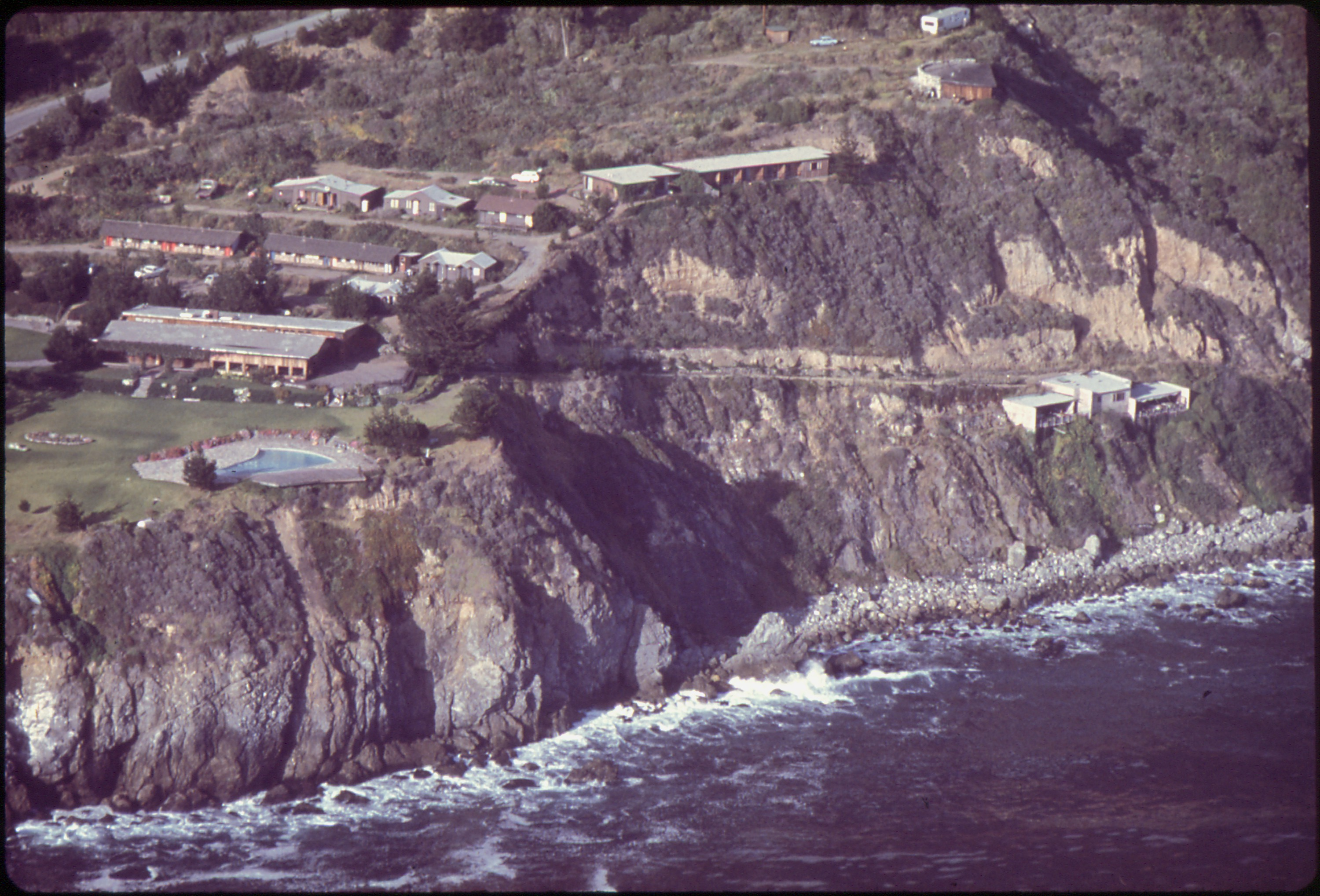 General notes: In Monterey County, California.